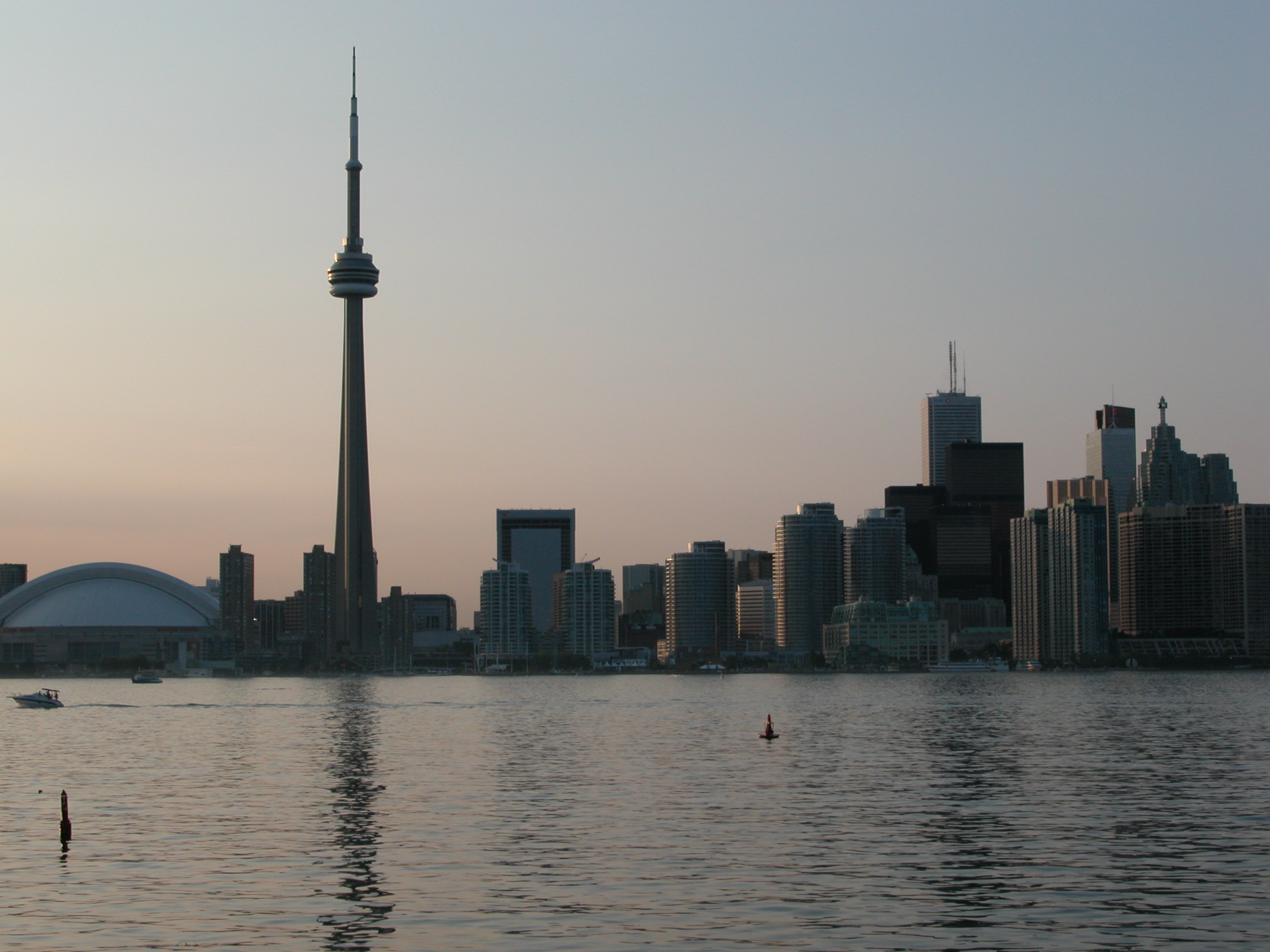 View of Downtown Toronto from Toronto Island